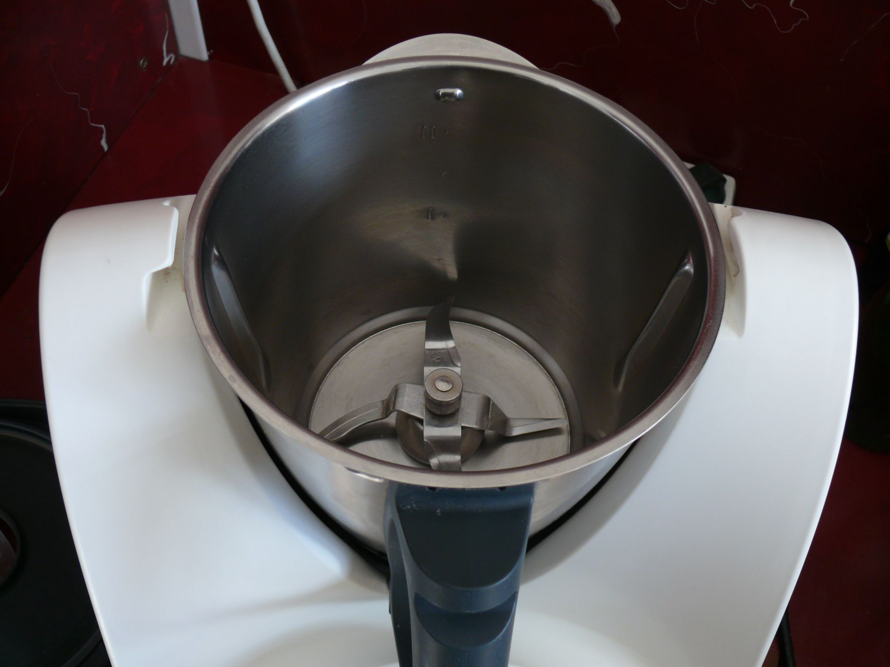 A Vorwerk Thermomix TM31.